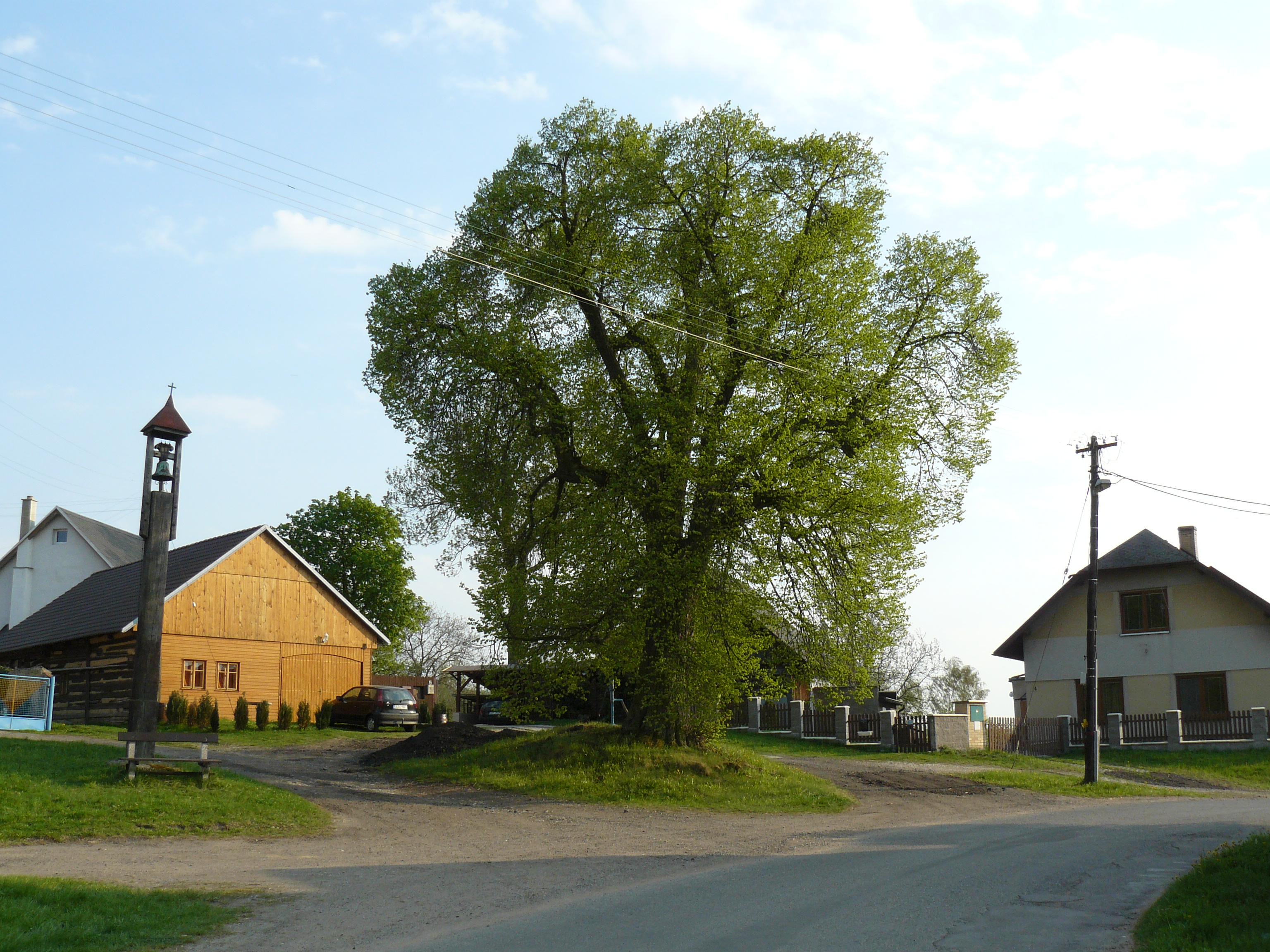 Kdanice - village in Czech Republic